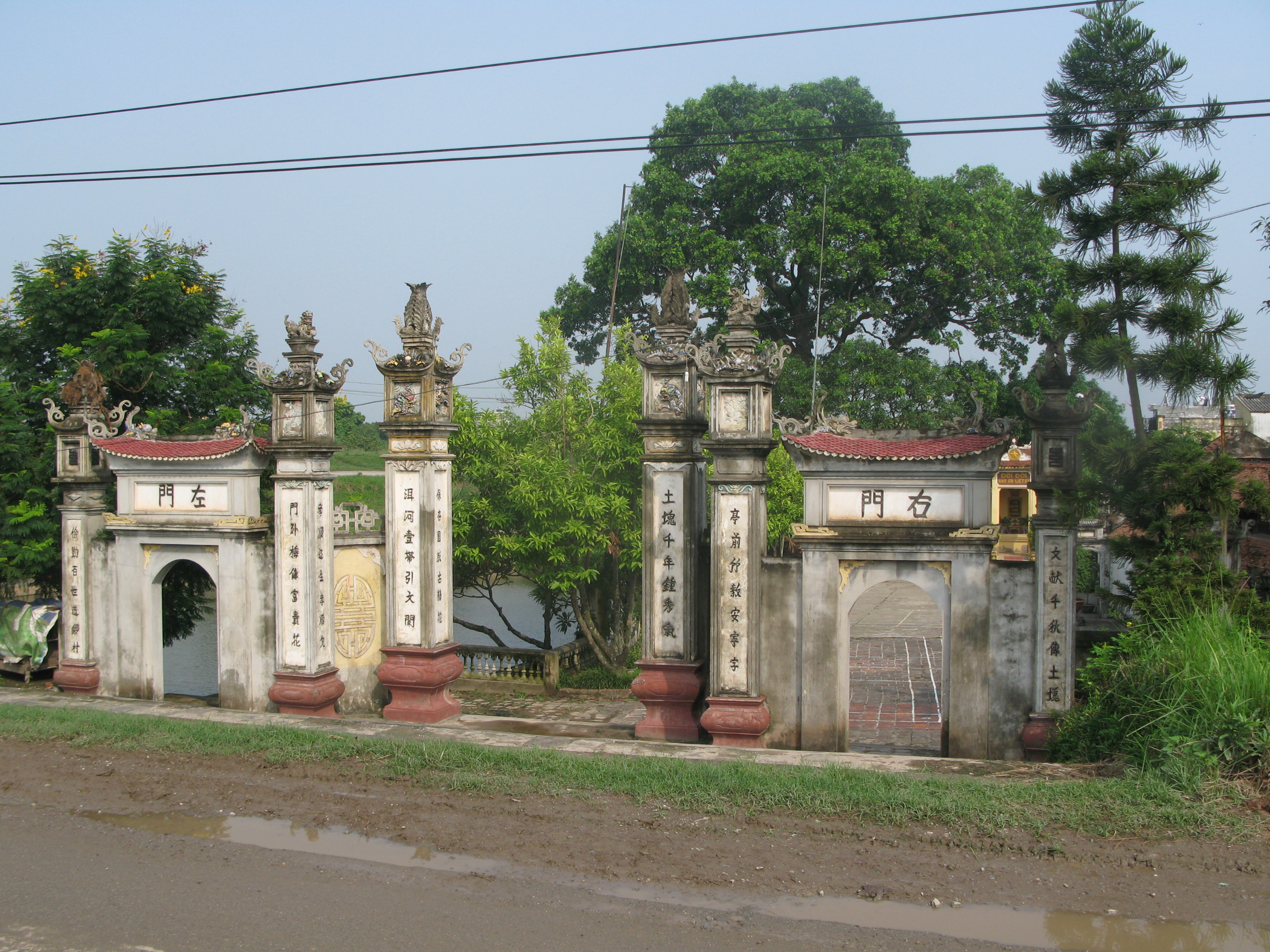 The gate of Thổ Khối Village's communal house. Hà Nội. Việt Nam